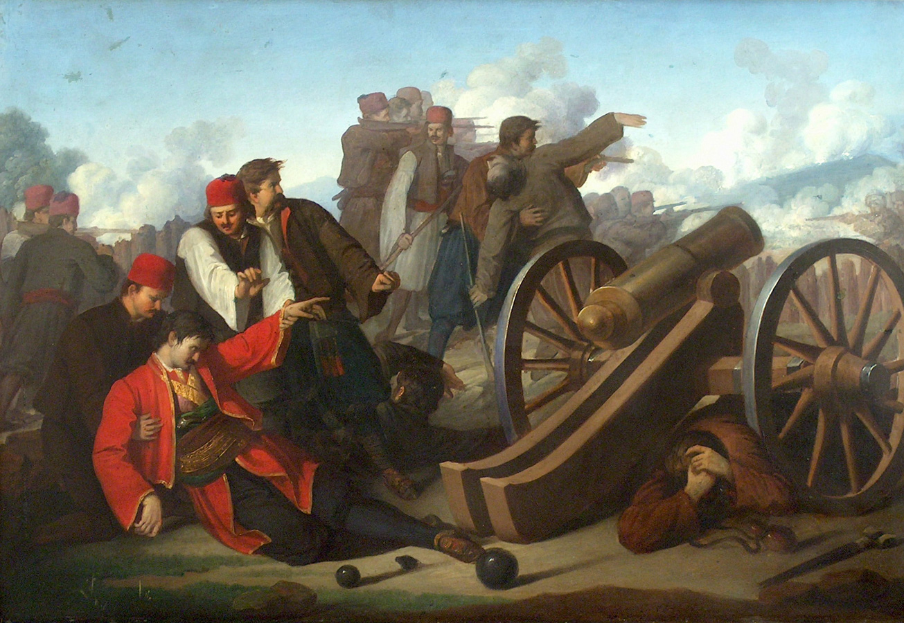 "Hajduk Veljko by the cannon" or "Death of Hajduk Veljko", 1850 oil painting by Stevan Todorović, depicting the Battle of Negotin (1813) during the First Serbian Uprising. Held at the National Museum in Belgrade.